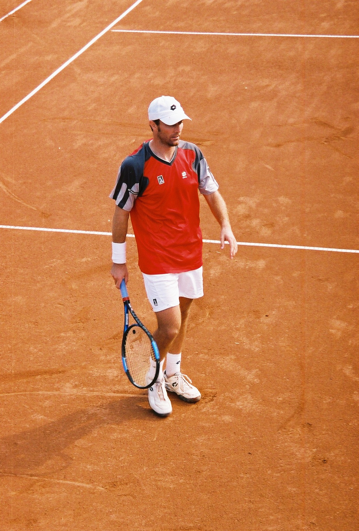 Felix Mantilla at BCR Open Romania 2004